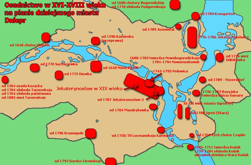 Settlement on the plan of today's Dnipro town over the XVI-XVIII centuries.